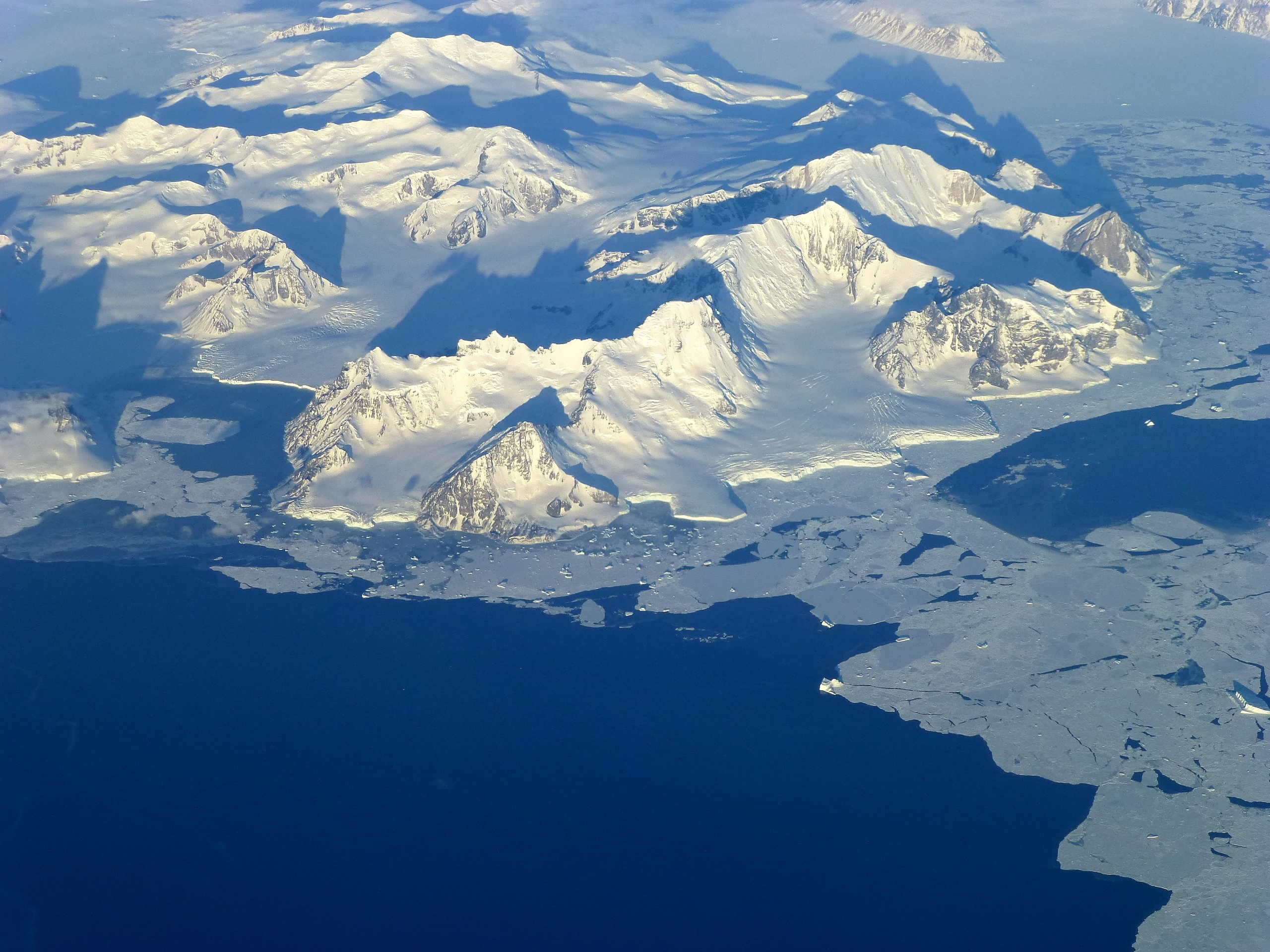 View of the northern Antarctic Peninsula from high altitude during IceBridge's flight back from the Foundation Ice Stream, on Oct. 28. NASA's Operation IceBridge is an airborne science mission to study Earth's polar ice. For more information about IceBridge, visit